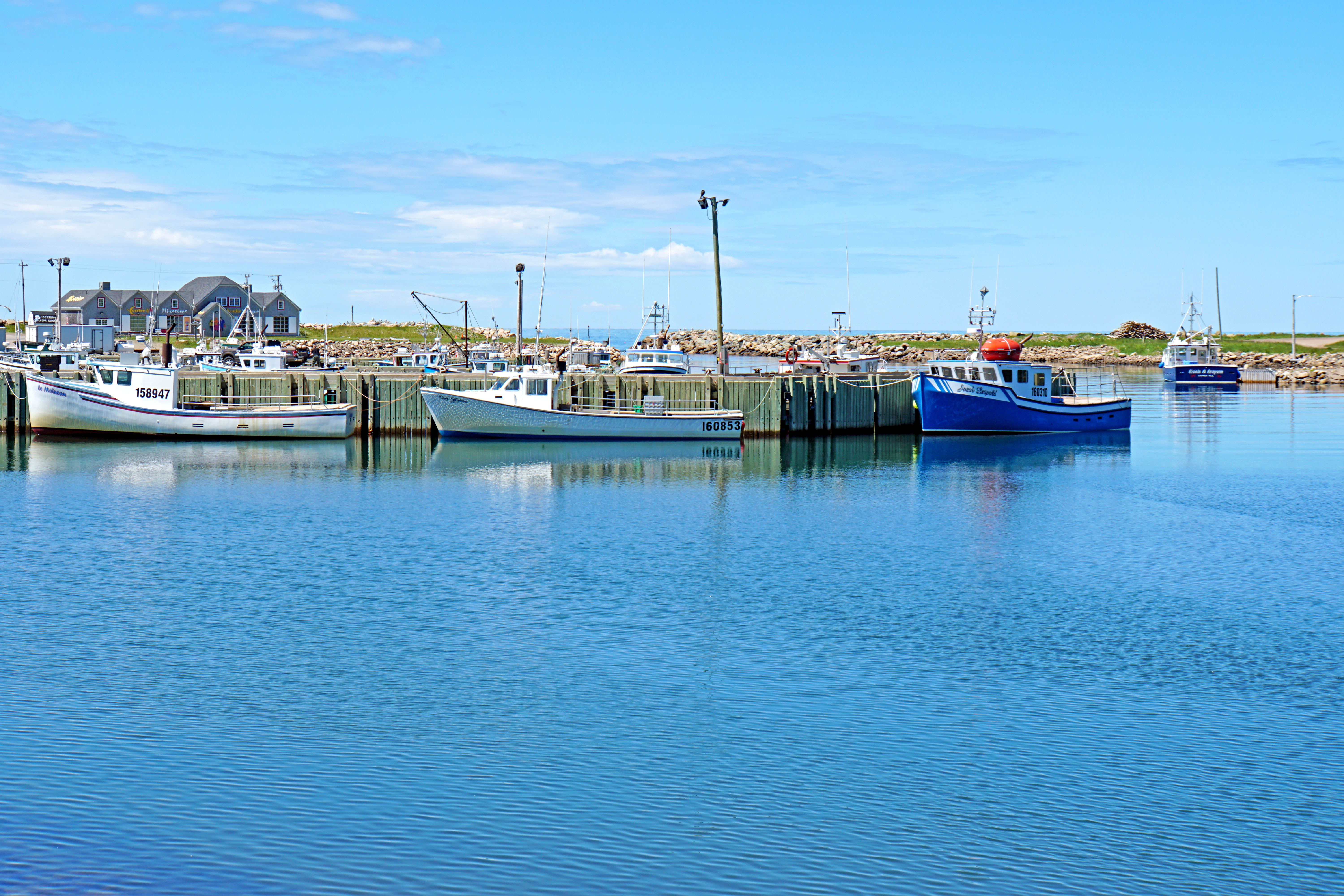 PLEASE, NO invitations or self promotions, THEY WILL BE DELETED. My photos are FREE to use, just give me credit and it would be nice if you let me know, thanks. Havre de Grand-Etang Harbour, another fishing community along the Cabot Trail.